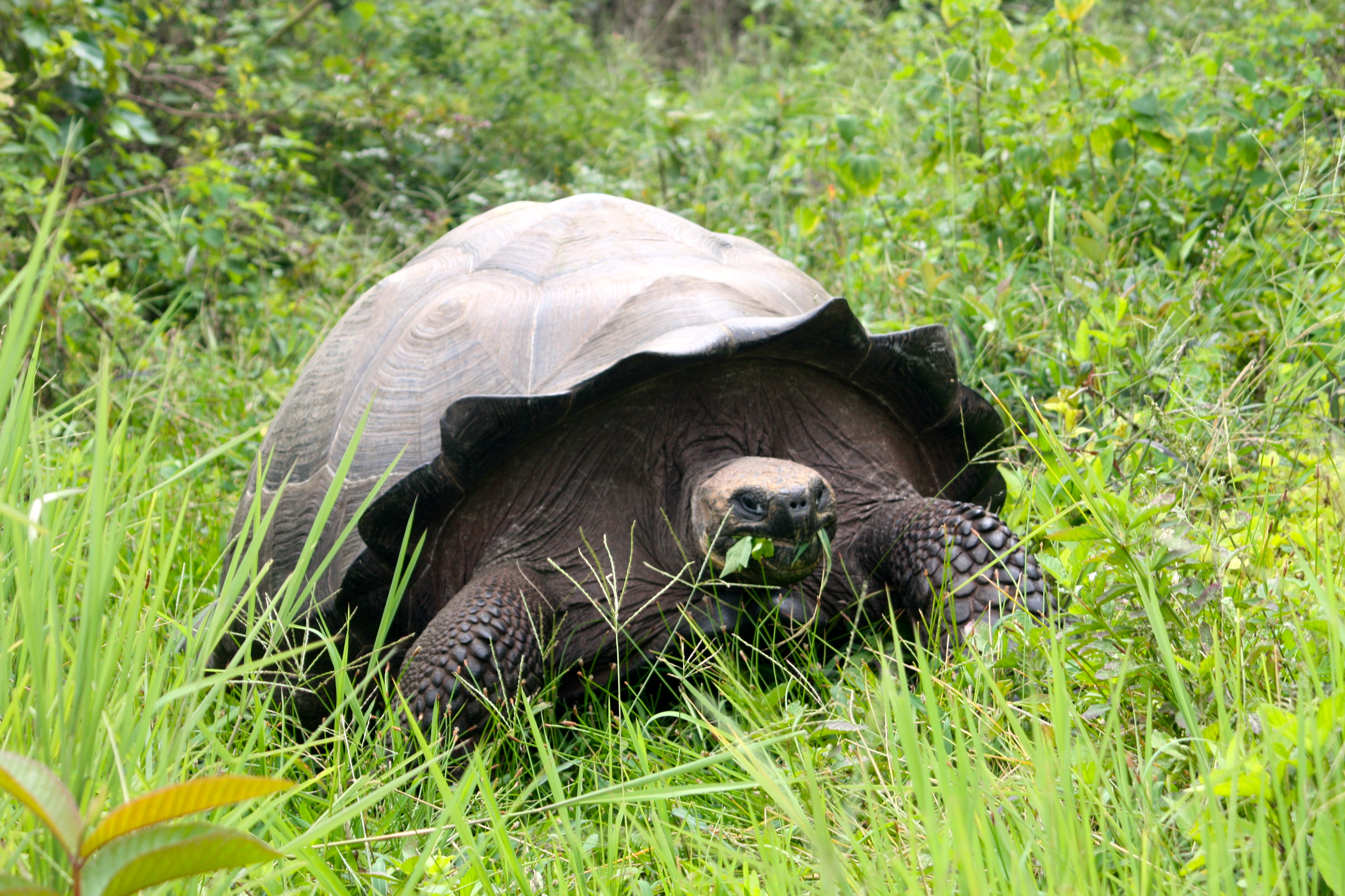 Eastern Santa Cruz Tortoise (Chelonoidis donfaustoi). Santa Cruz, Galápagos. 12 August 2014